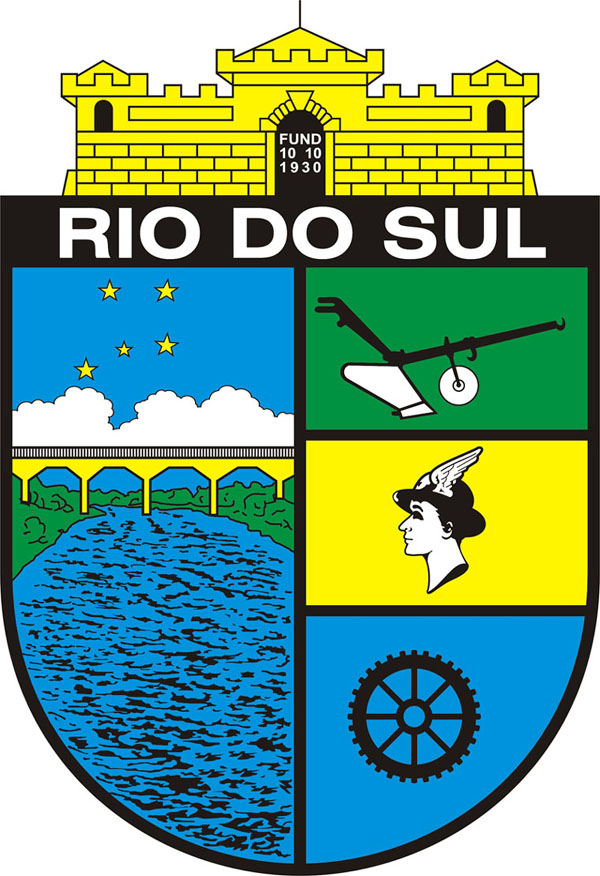 coat of city Rio do sul